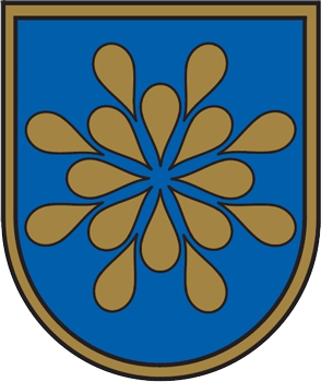 Coat of arms of Saldus Municipality, Latvia